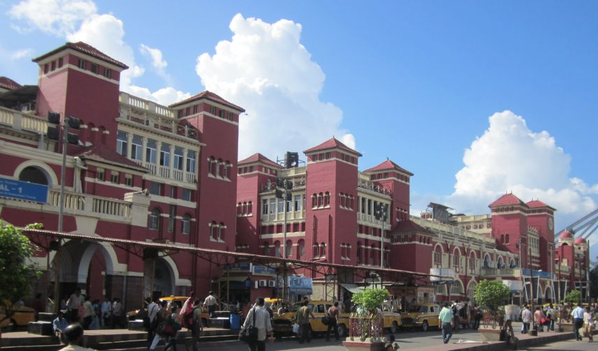 One of the terminals of Howrah Station, at it appears in 2011.